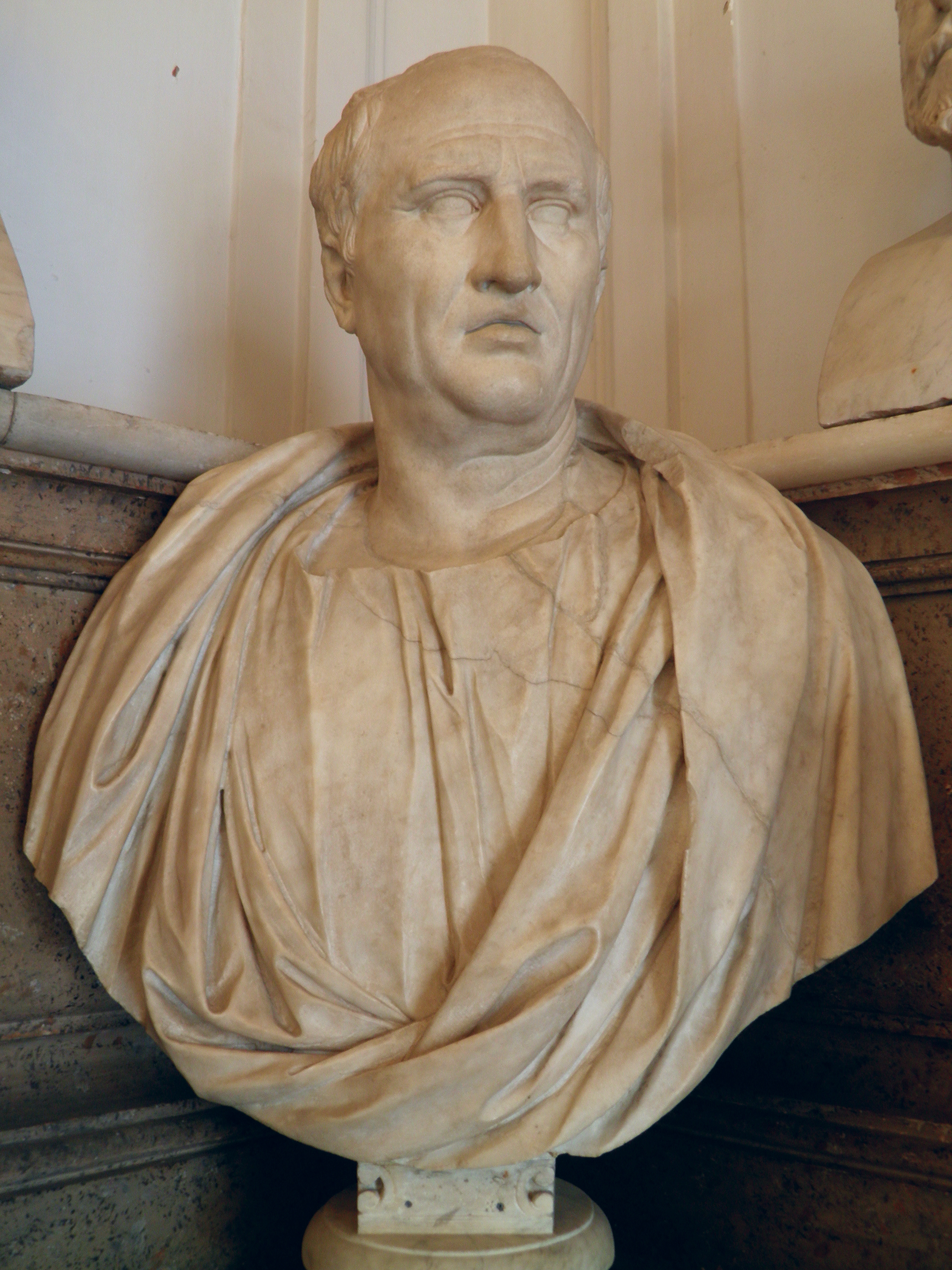 Bust of Cicero, Capitoline Museums